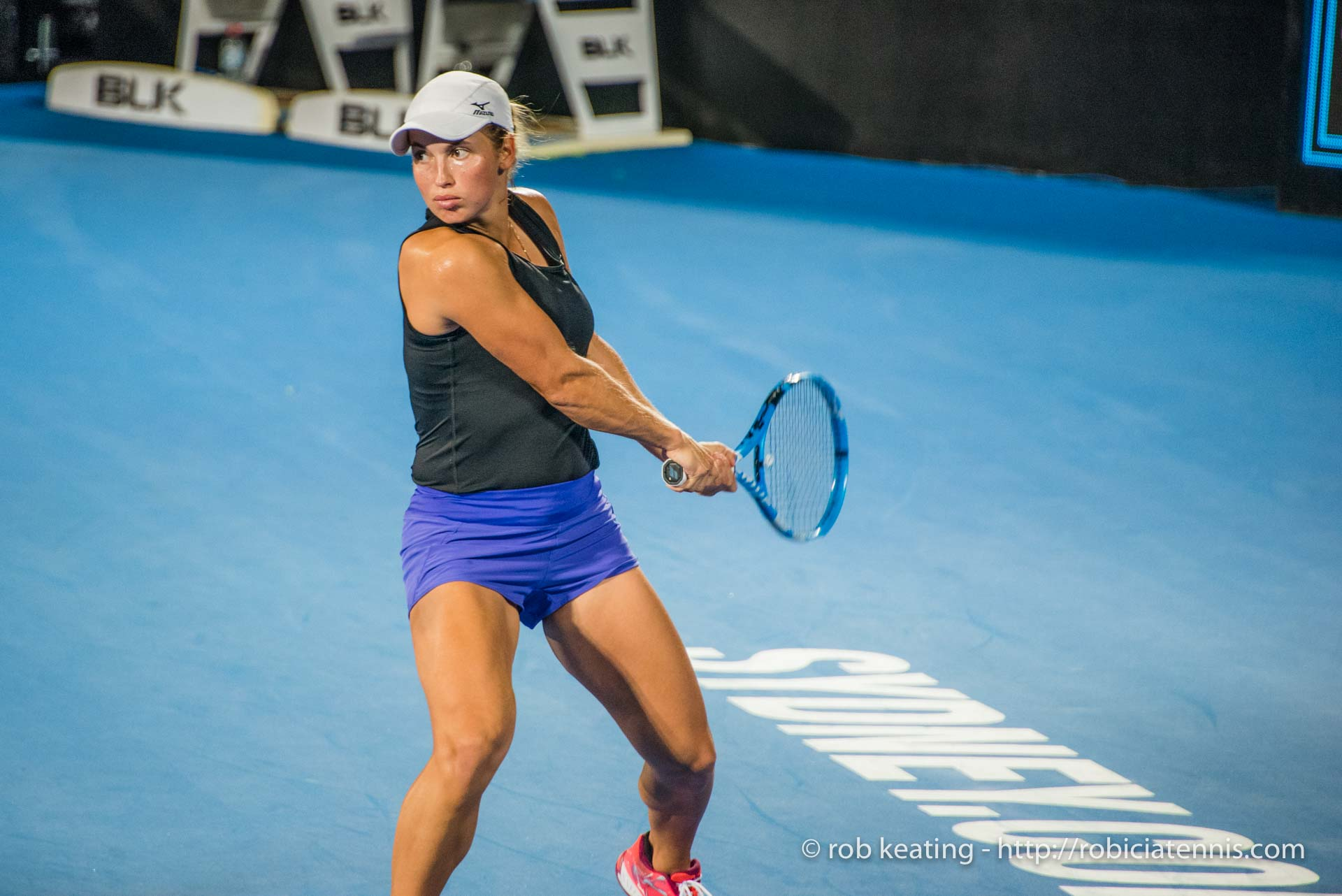 Sydney, Australia - 9 January 2019: Qualifier Yulia Putintseva in the second round at the Sydney International tennis against Sloane Stephens on Ken Rosewall Arena, Sydney Olympic Park. (Photo by Rob Keating/robiciatennis.com)